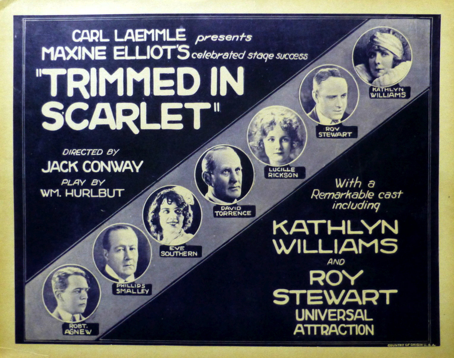 Lobby card for the 1923 film Trimmed in Scarlet showing cast members Kathlyn Williams, Roy Stewart, Lucille Ricksen, David Torrence, Eve Southern, Phillips Smalley, and Robert Agnew. There are no copyright markings pertaining to the image as can be seen in the links above. At bottom right is Country of Origin USA.